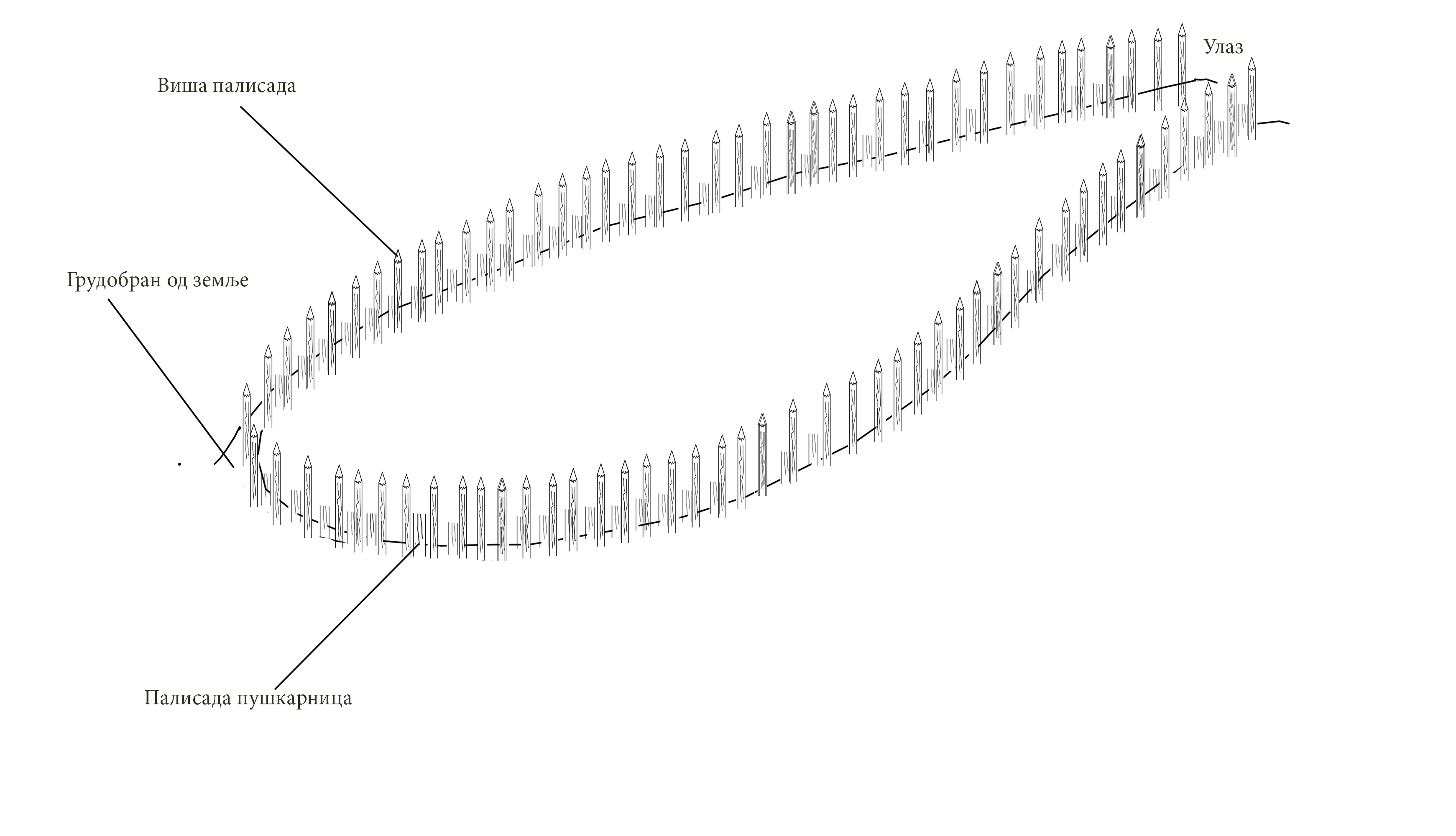 3D ilustration of sturcture of large sconce of battle of Ivankovac